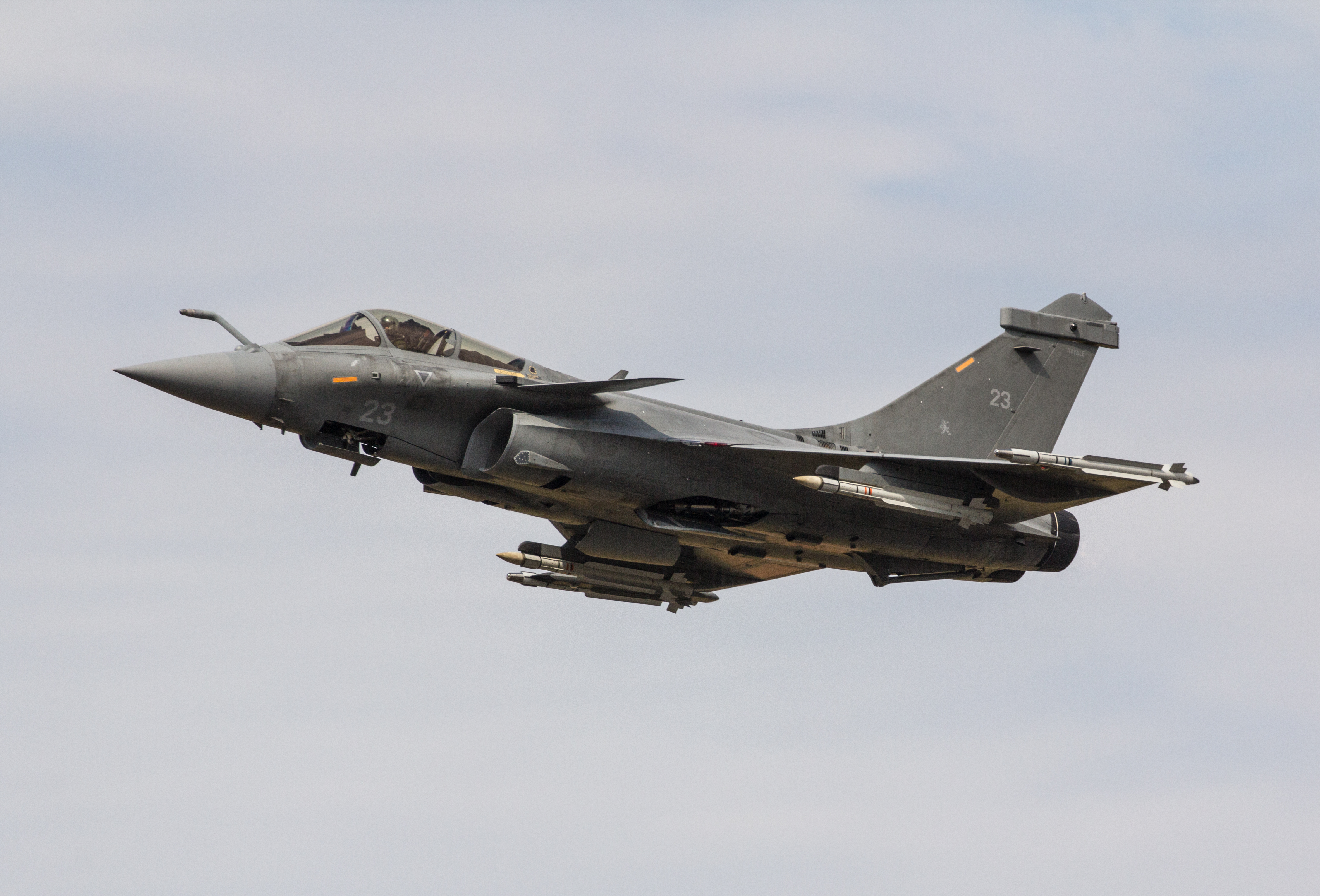 Royal International Air Tattoo 2018, Gloucestershire